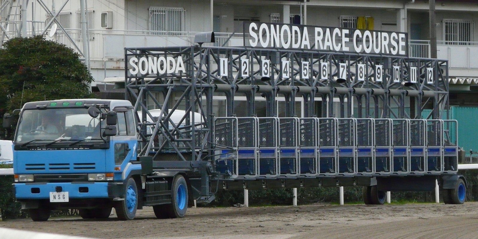 Sonoda-Racecourse-6